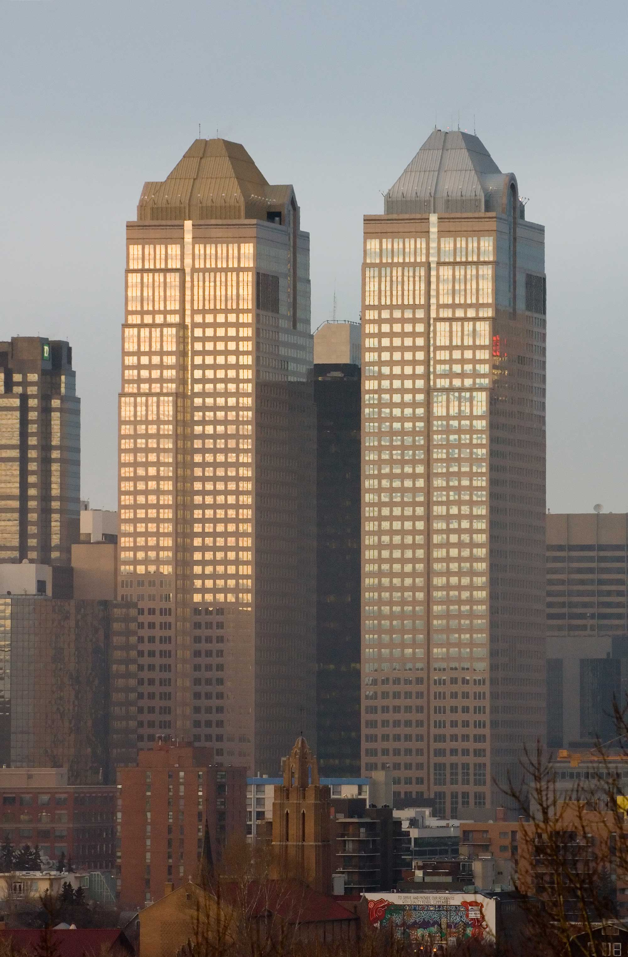 Bankers Hall West and East in Calgary, Alberta looking north from St. Mary's Cemetary. Photo by Chuck Szmurlo taken March 5, 2007 with a Nikon D200 and a Nikon 70-200 f2.8 lens.